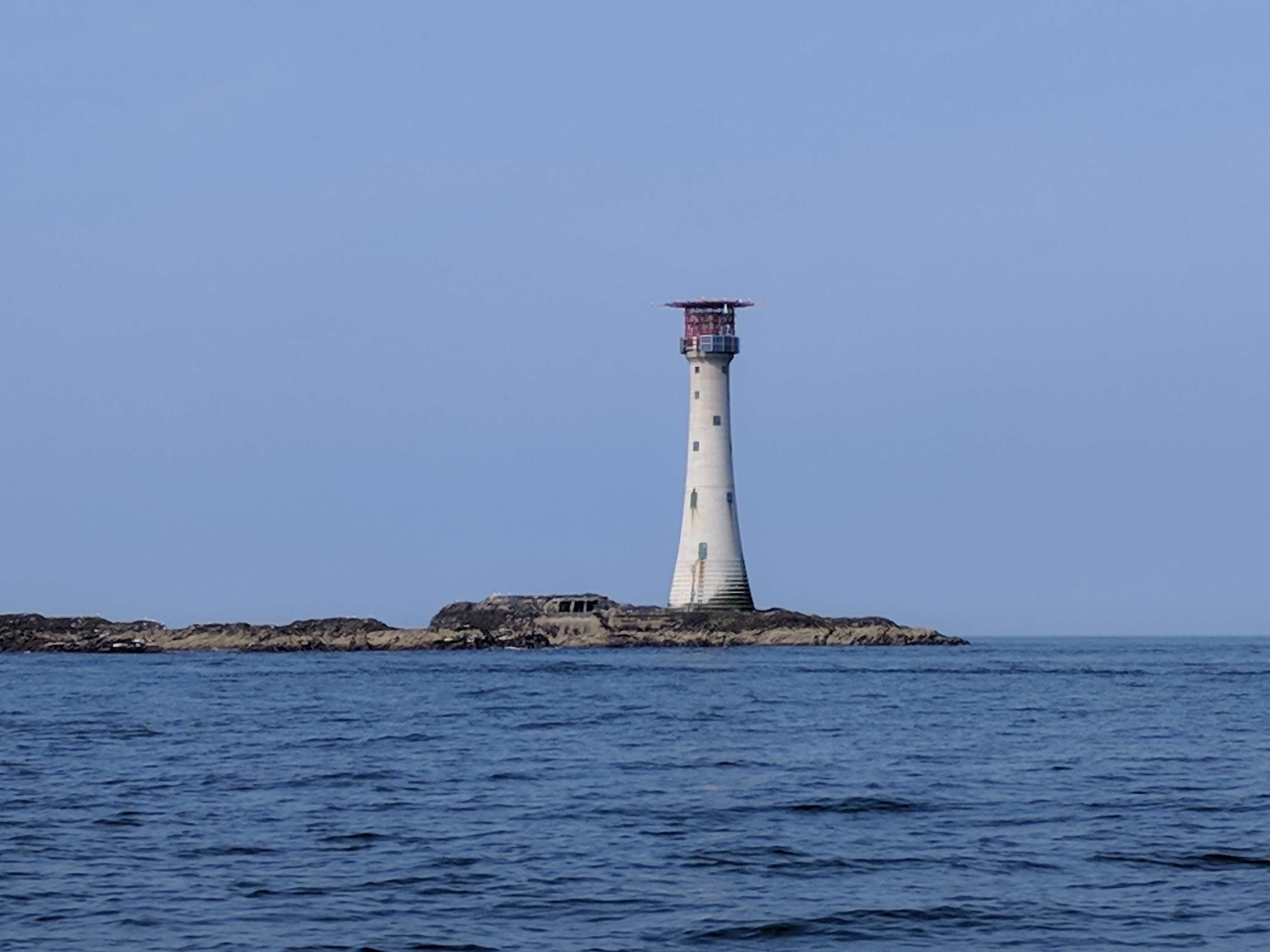 A view of the Smalls Lighthouse showing the solar panels and helideck as well as it's general situation